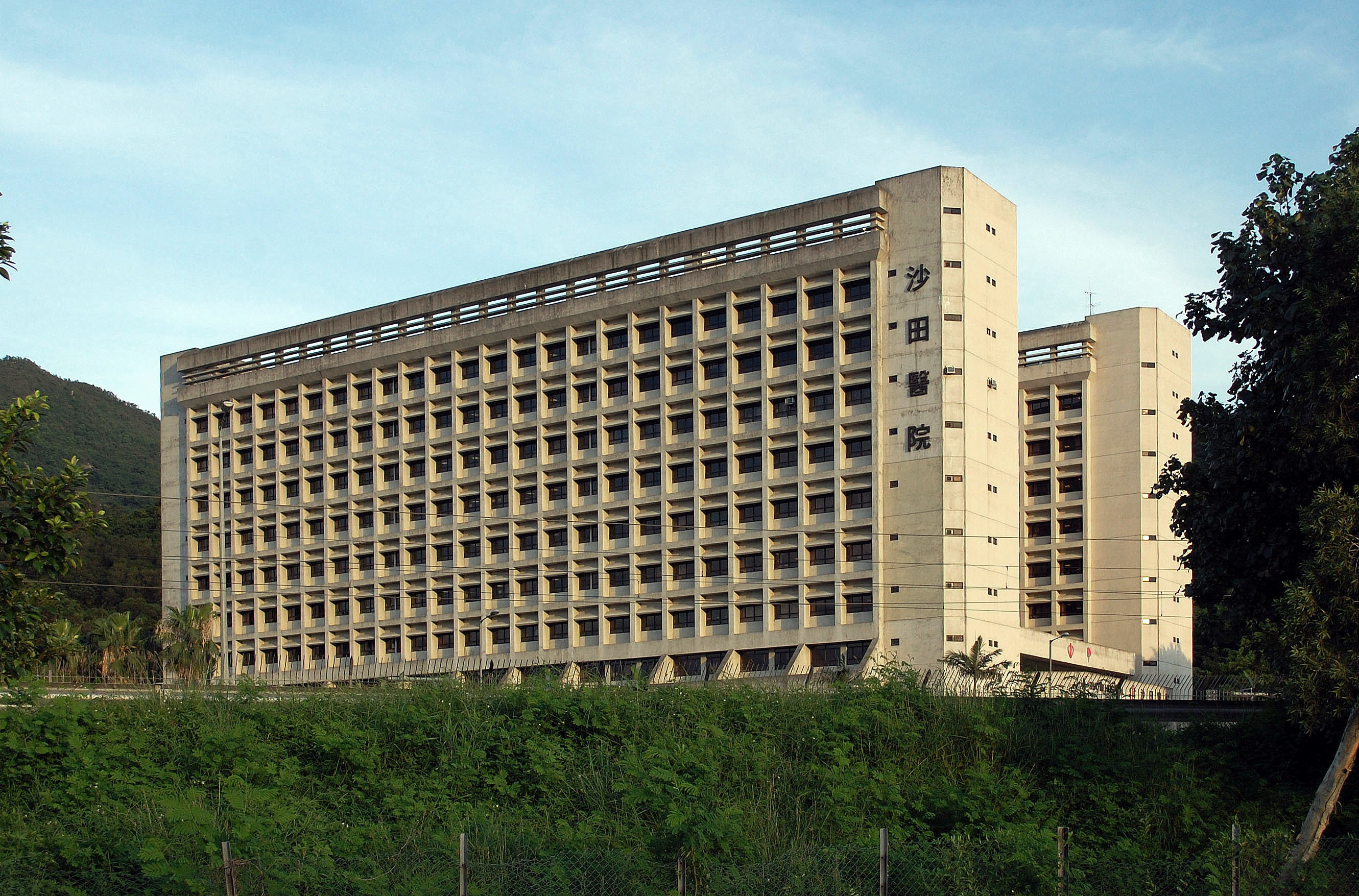 Exterior of Sha Tin Hospital, June 2014. 中文（香港）: 沙田醫院外觀